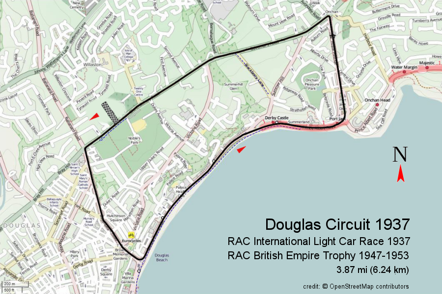 Douglas Circuit 1937 (Isle of Man)